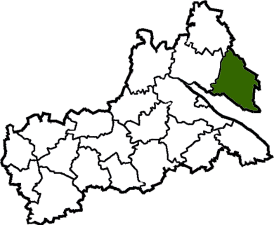 Chornobayivskyi-Raion map